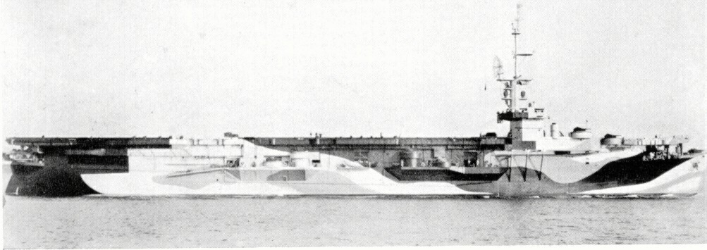 The U.S. Navy escort carrier USS Commencement Bay (CVE-105) underway, circa in 1944. She is painted in Camouflage Measure 32 design 16A.